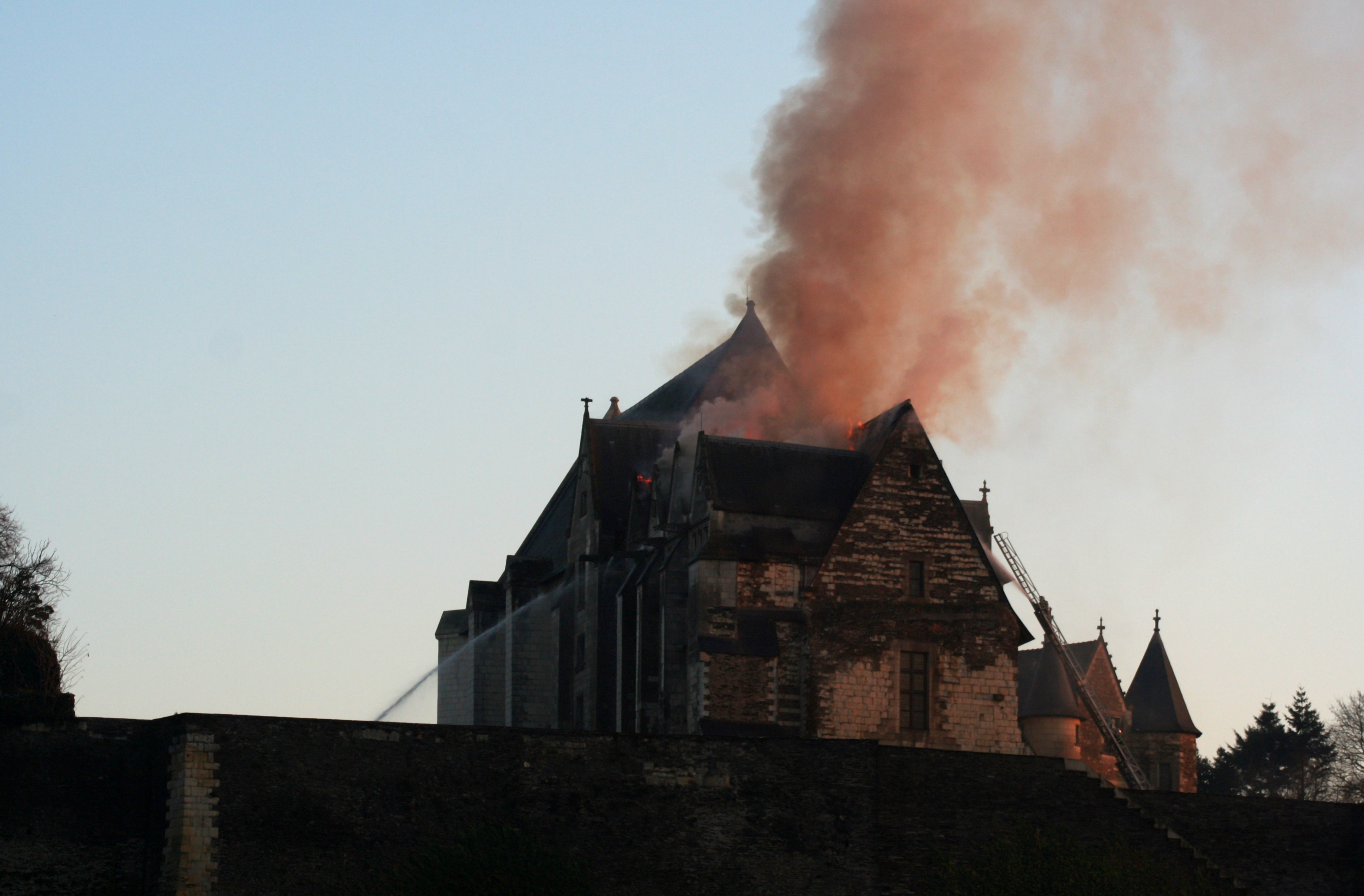 A fire in Angers castle's "logis royal" occurred in January 10, 2009. The fire started during the afternoon and was extinguished during the night. No victims were deplored. Repair costs amounted to 2 million euros, although no art piece were destroyed. The fire was caused by a malfunctioning electric heater system that was put into use due to the unusually cold winter. On the picture, one can see the roof of the "logis royal" partly destroyed and showing the burning frame. The firemen did not use a big firetruck, because it could not enter inside the castle gardens. Hight portable ladders and hundreds of meters of hose were used instead. The higher building behind the burning roof correspond to the castle's chapel. It was feared to take fire too, but it was saved by the firemen.